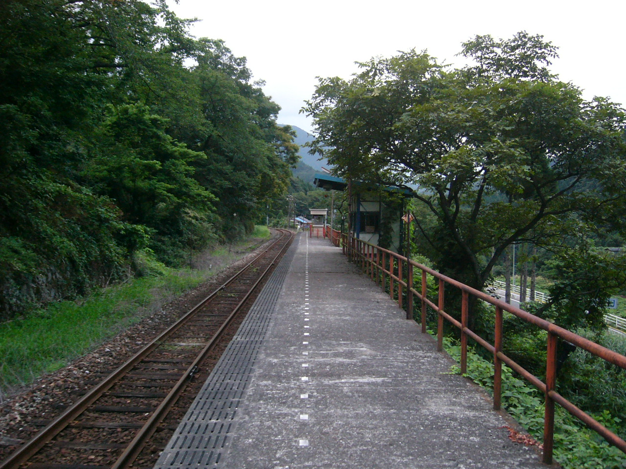 Hida-Nakayama Station